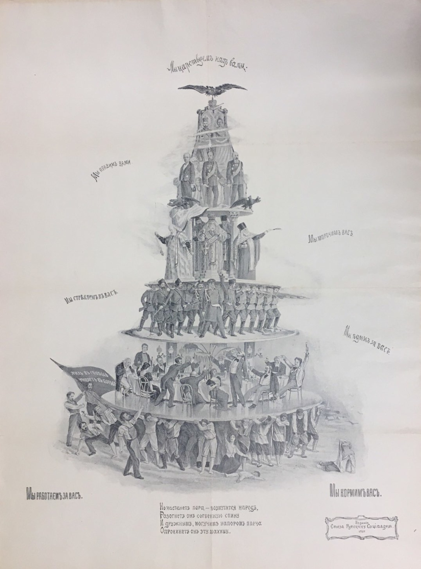 A political caricature of Russian's Empire society. Basis of the File:Pyramid of Capitalist System.png.